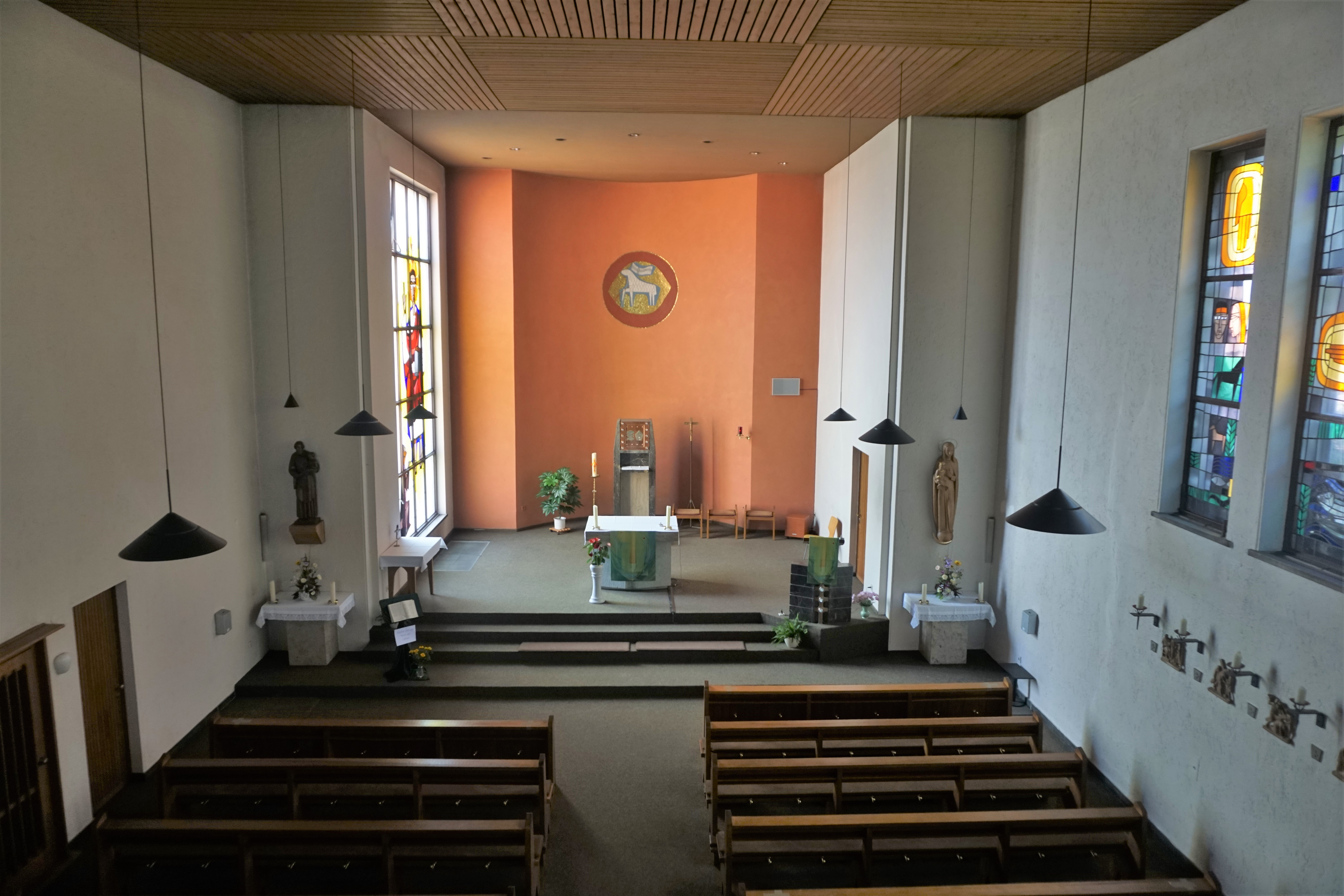 Interior of the St. Joseph Church in Bad Bevensen, district Uelzen.